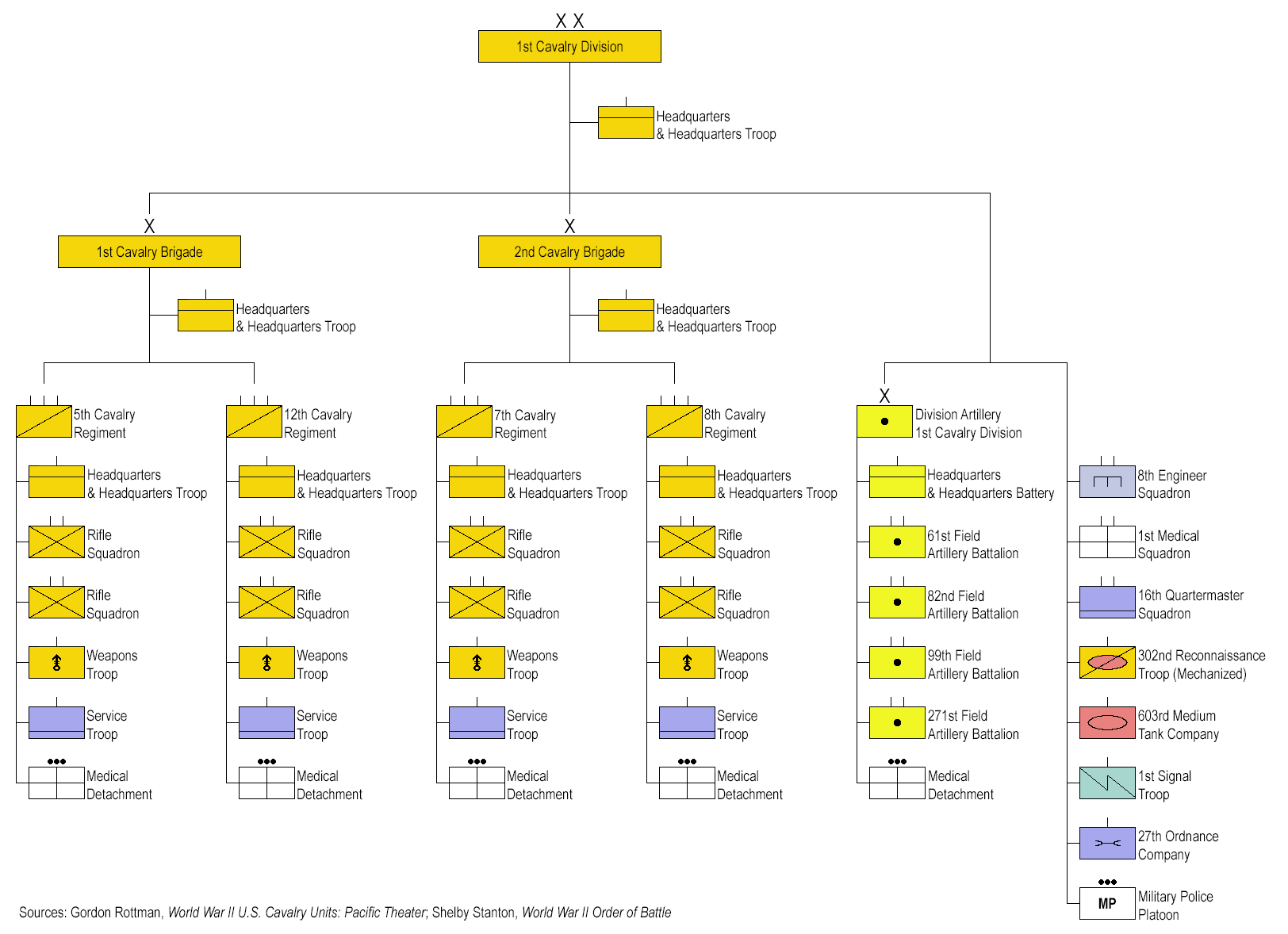 United States World War II 1st Cavalry Division 1944-45 Structure